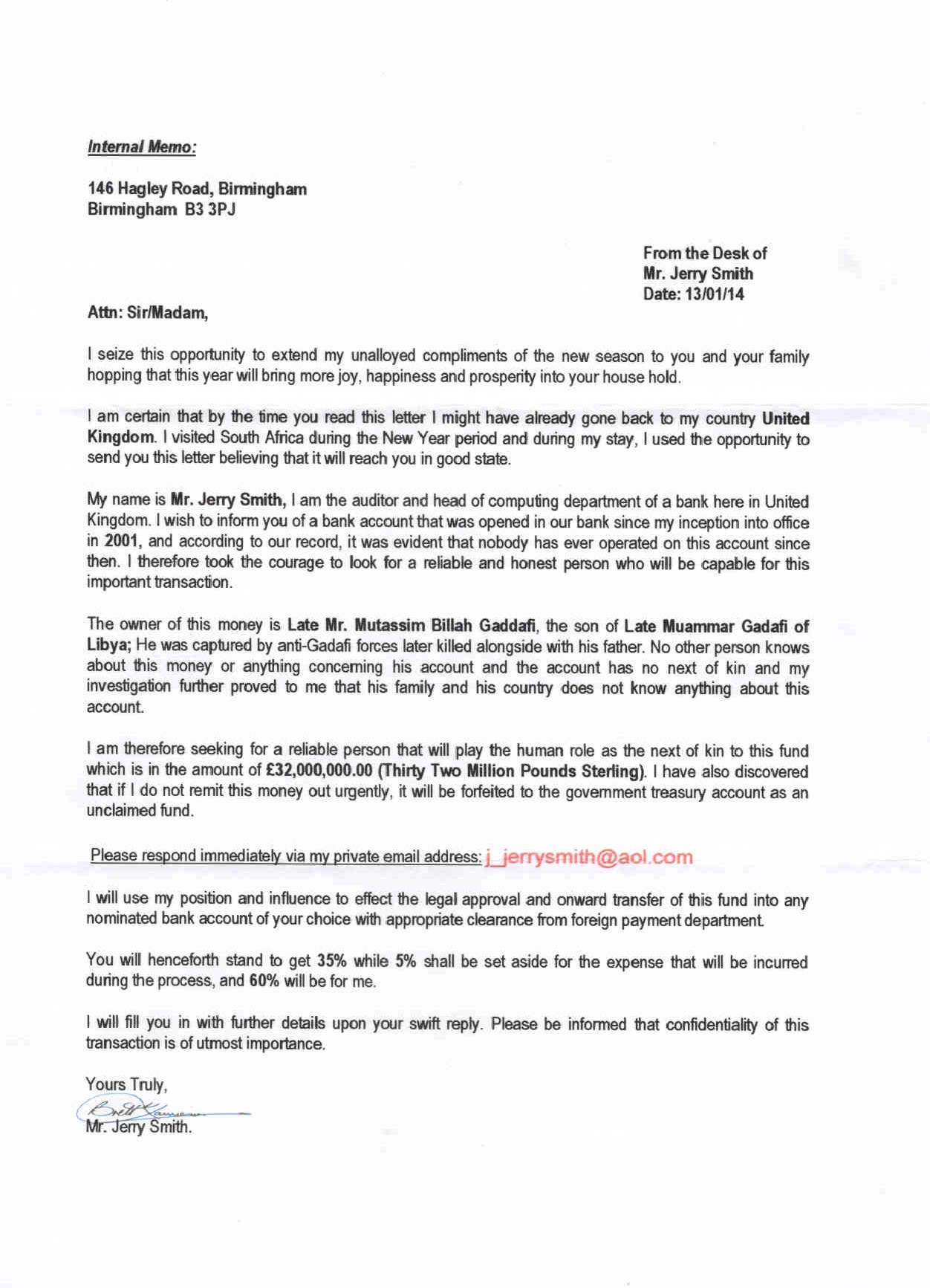 Scam letter posted within South Africa, see envelope at File:Envelope of scam letter in SA.jpg